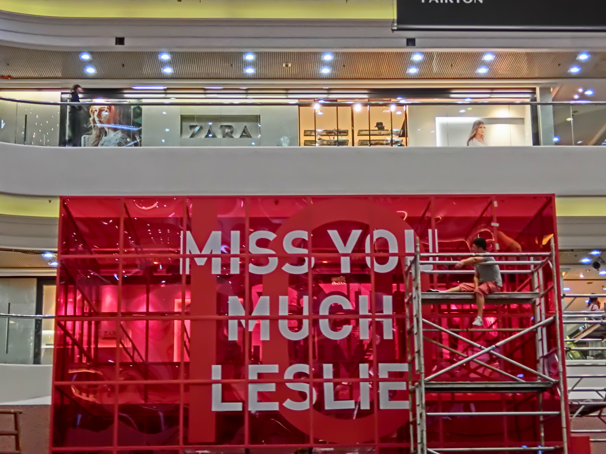 Miss You Much Leslie Exhibition 2013 in Times Square, Causeway Bay, Hong Kong